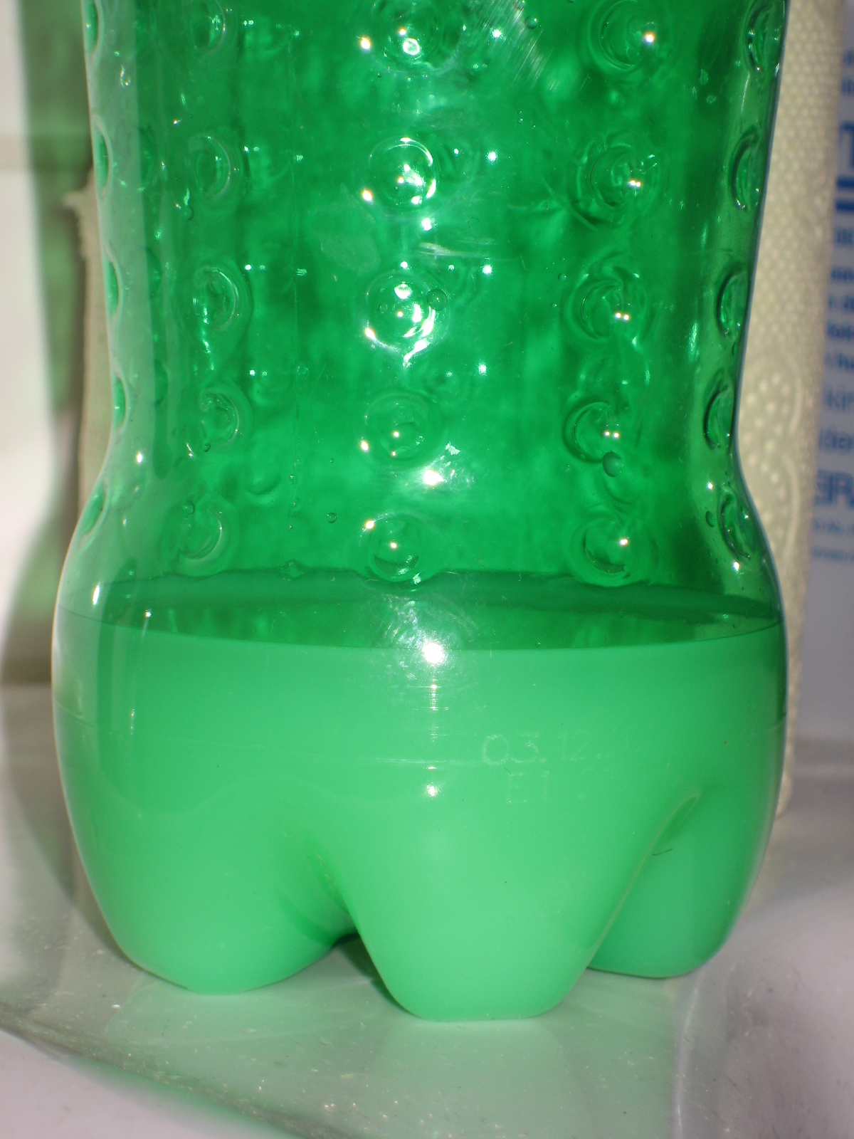 DXM separated from cough syrup.